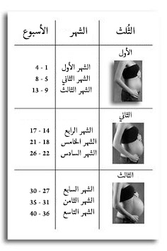 Picture showing the progression of pregnancy over 3 trimesters. This image shows what months and weeks fall under what trimester.